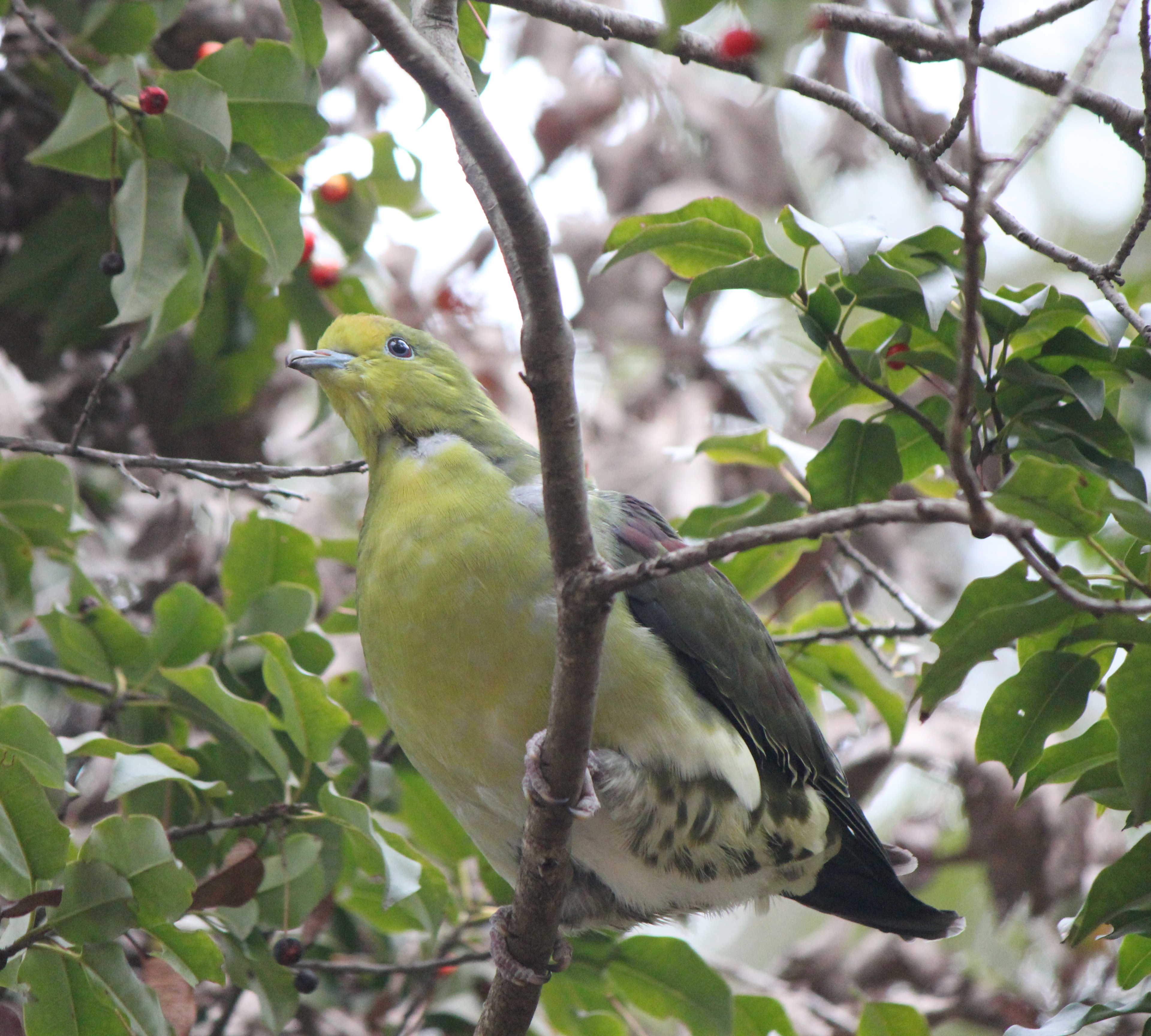 White-bellied Green Pigeon (Treron sieboldii) eating fruits of Ilex pedunculos, in Aichi prefecture, Japan.